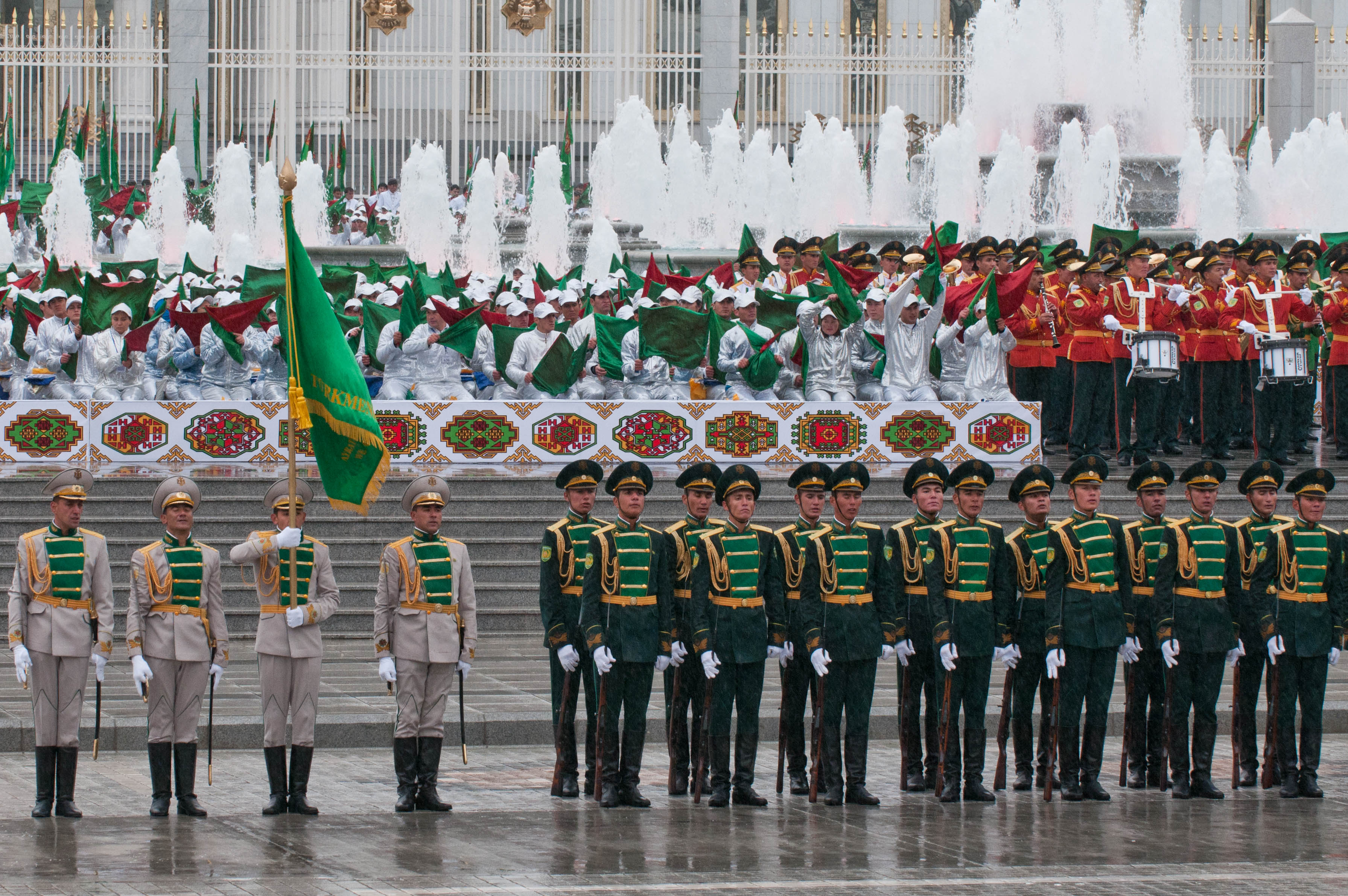 Celebrating the 20th year of independence in Turkmenistan